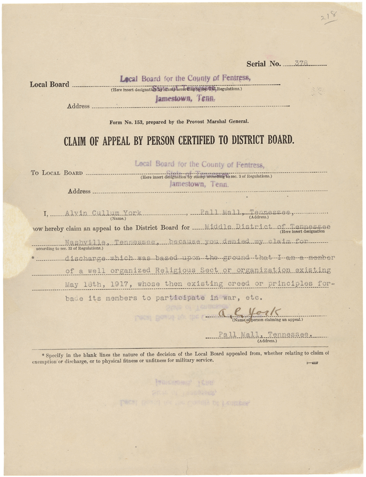 Written on the claim document: To Local Board for the County of Fentress, State of Tennessee. Address Jamestown, Tenn. I, Alvin C. York, Pall Mall, Tennessee, now hereby claim an appeal to the District Board for Middle District of Tennessee Nashville, Tennessee, because you denied my claim for discharge which was based upon the ground that I am a member of a well organized Religious Sect or organization existing May 18th, 1917, whose then existing creed or principles forbade its members to participate in war, etc. A. C. York Pall Mall, Tennessee.